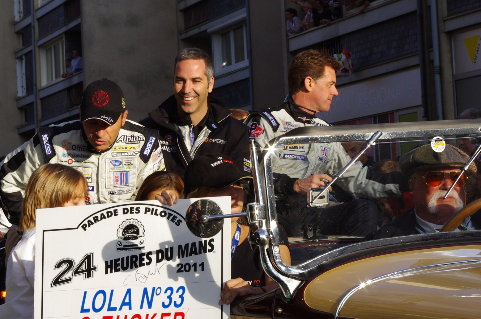 Christophe Bouchut, João Barbosa, and Scott Tucker at the Le Mans 24 Hours 2011 Drivers' Parade